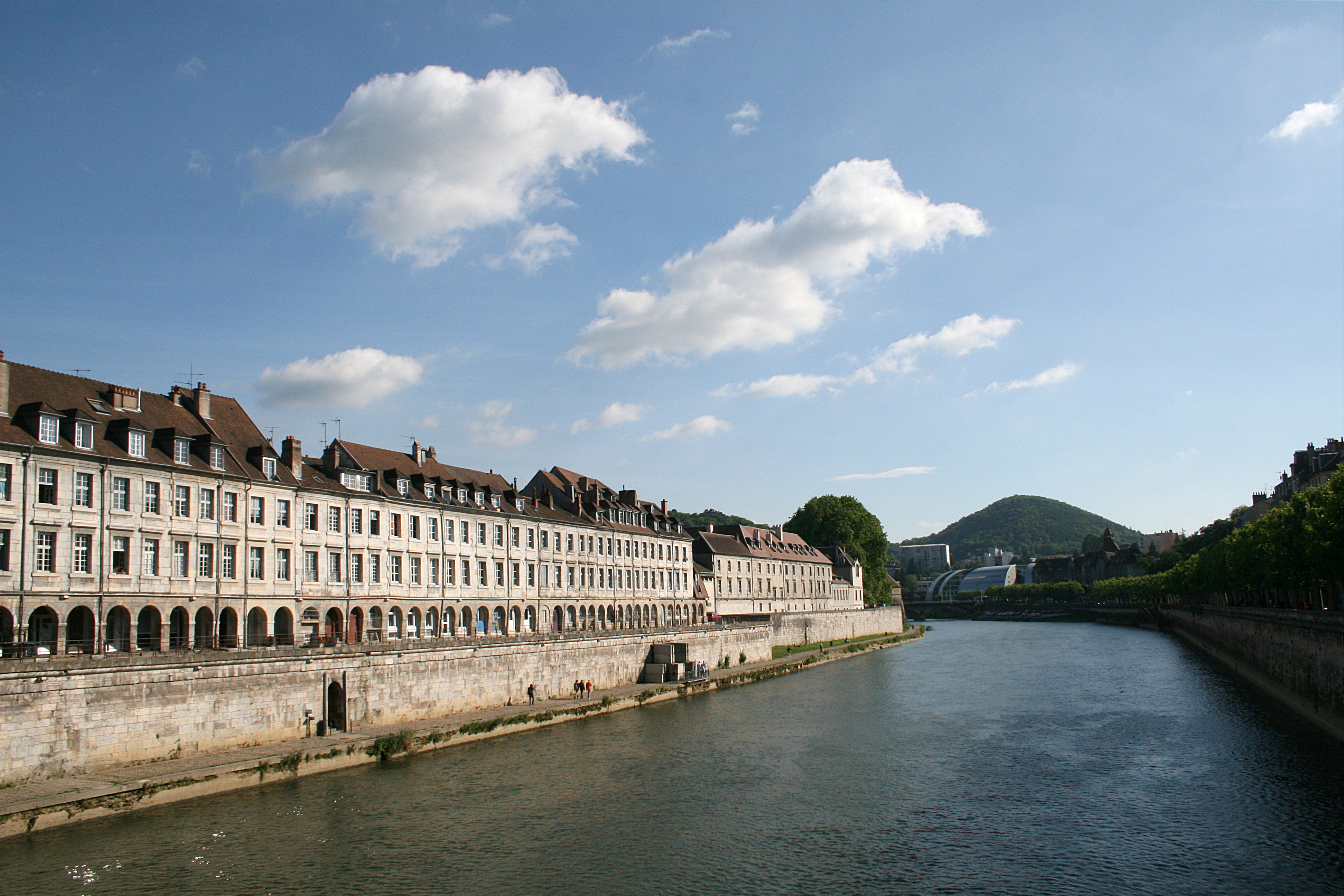 Besançon (Doubs - France), the Doubs (river), and the Quai Vauban downstream of Pont Battant.